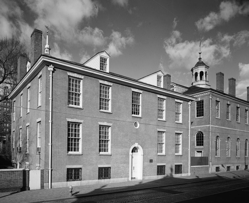 American Philosophical Society Hall, a National Historic Landmark, 104 South Fifth Street, Philadelphia, PA.